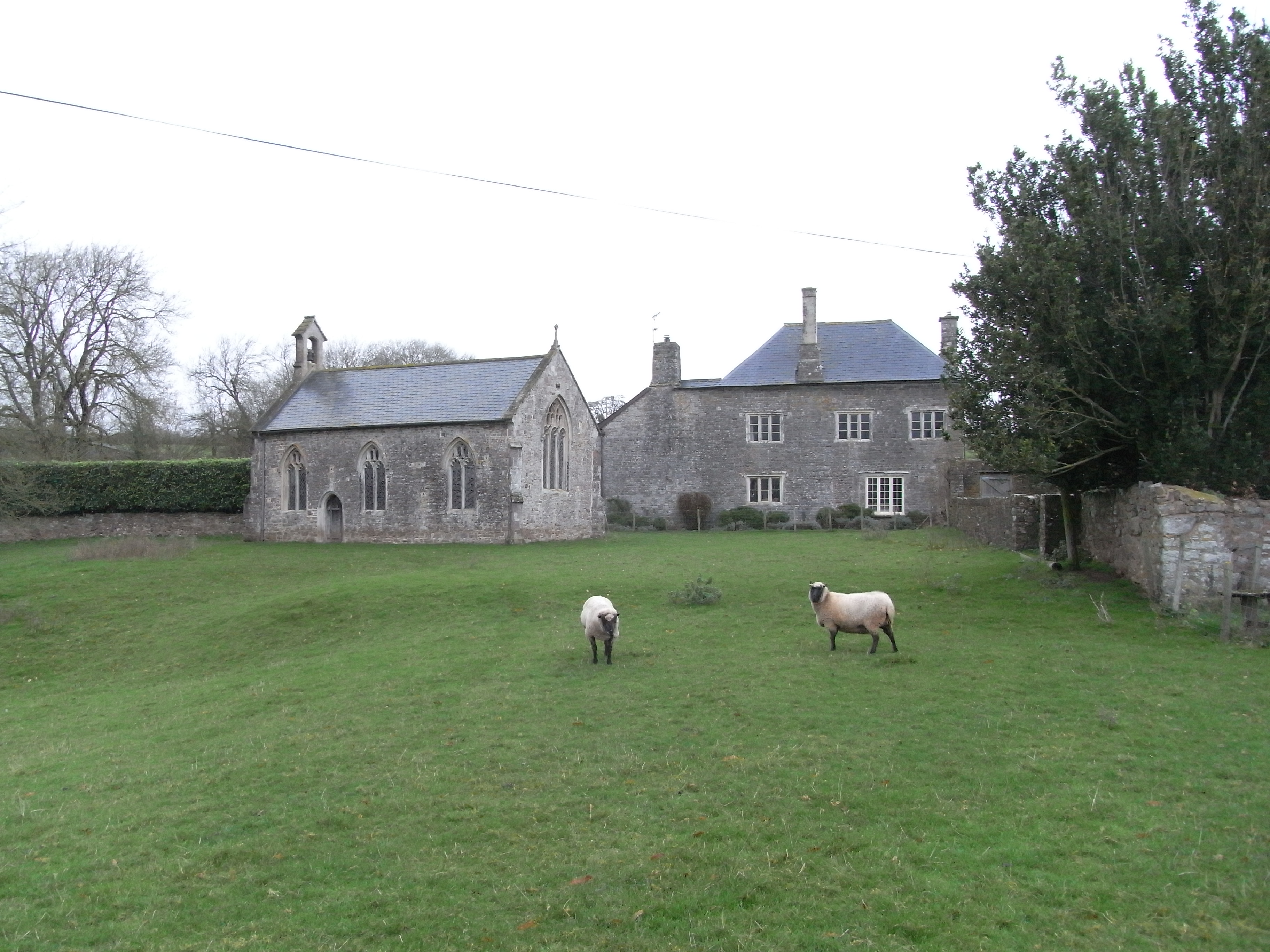 Ayshford Chapel (left) and Ayshford Court (right), Ayshford, Burlescombe, Devon, seen from the south